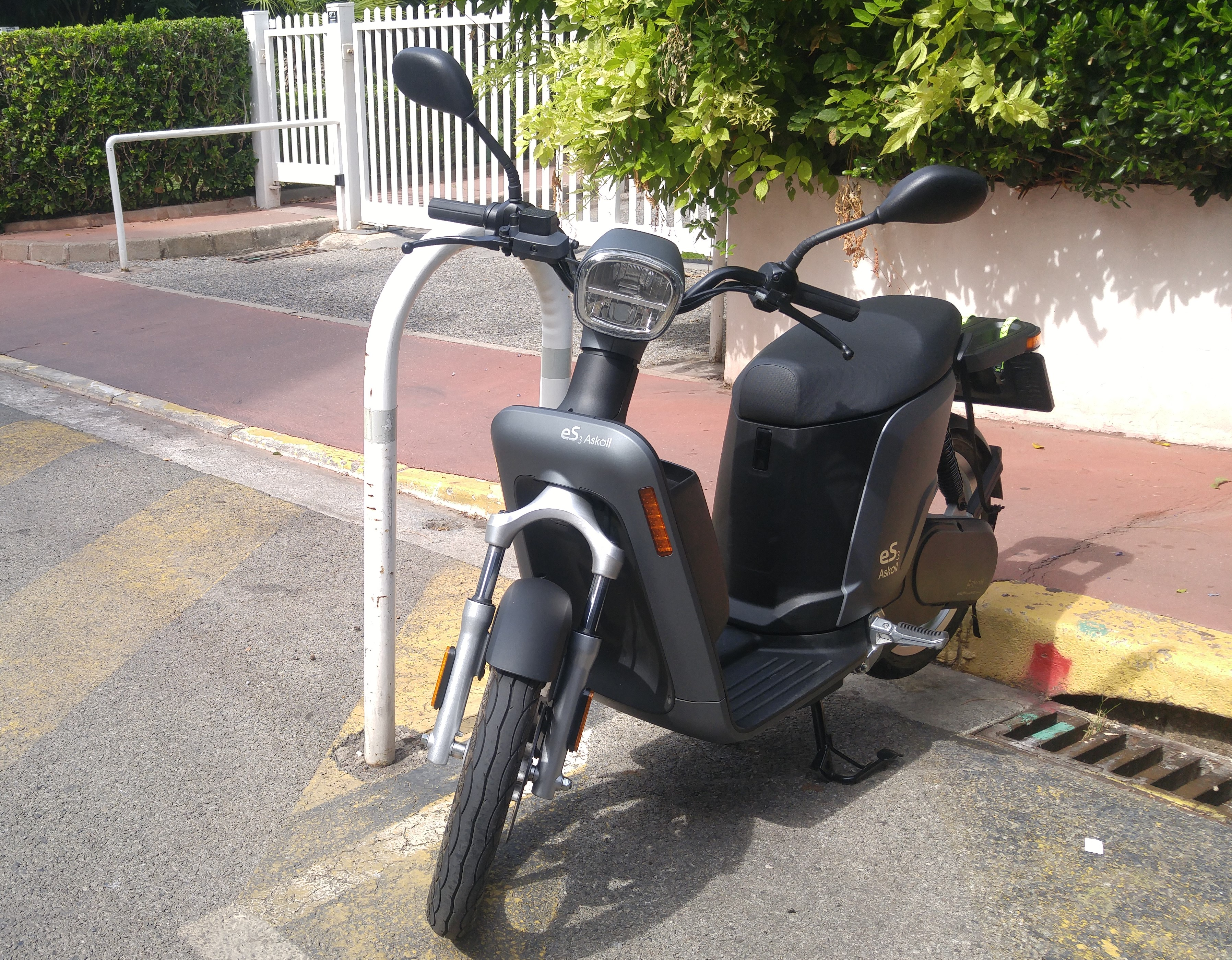 2018 Askoll ES3 electric scooter, taken in Cannes, France